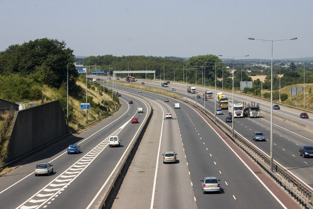 M20 at Cobtree The M20 motorway close to Junction 6. Viewed from the Forstal Road bridge, looking West.